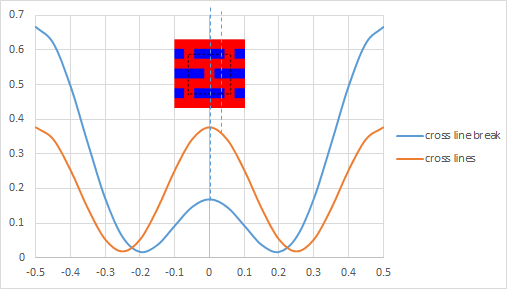 A common brick pattern is prone to significant distortion near the resolution limit.